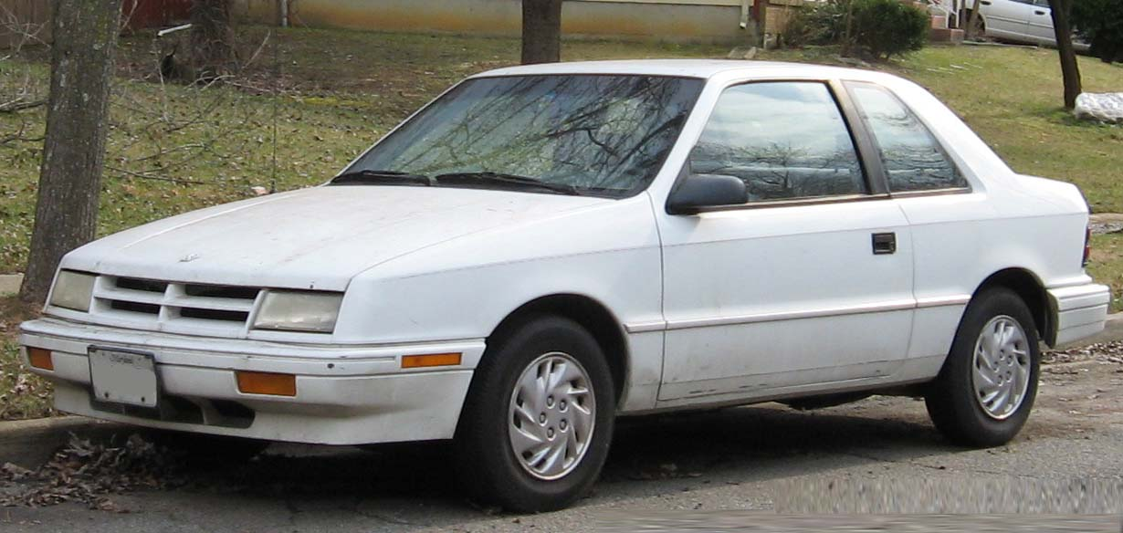 Dodge Shadow photographed in USA.